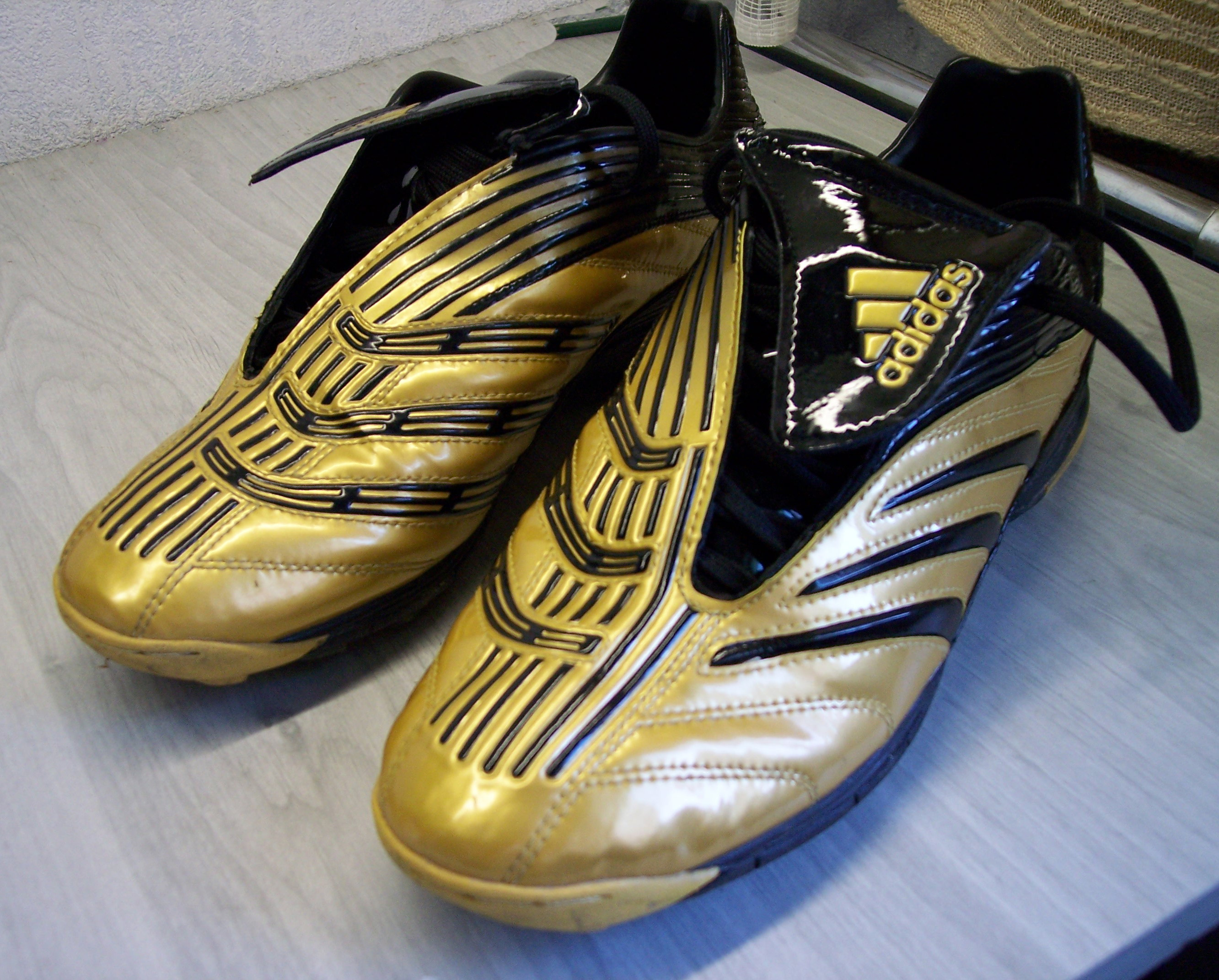 Adidas Predator + Absolado TRX TF Soccer shoe